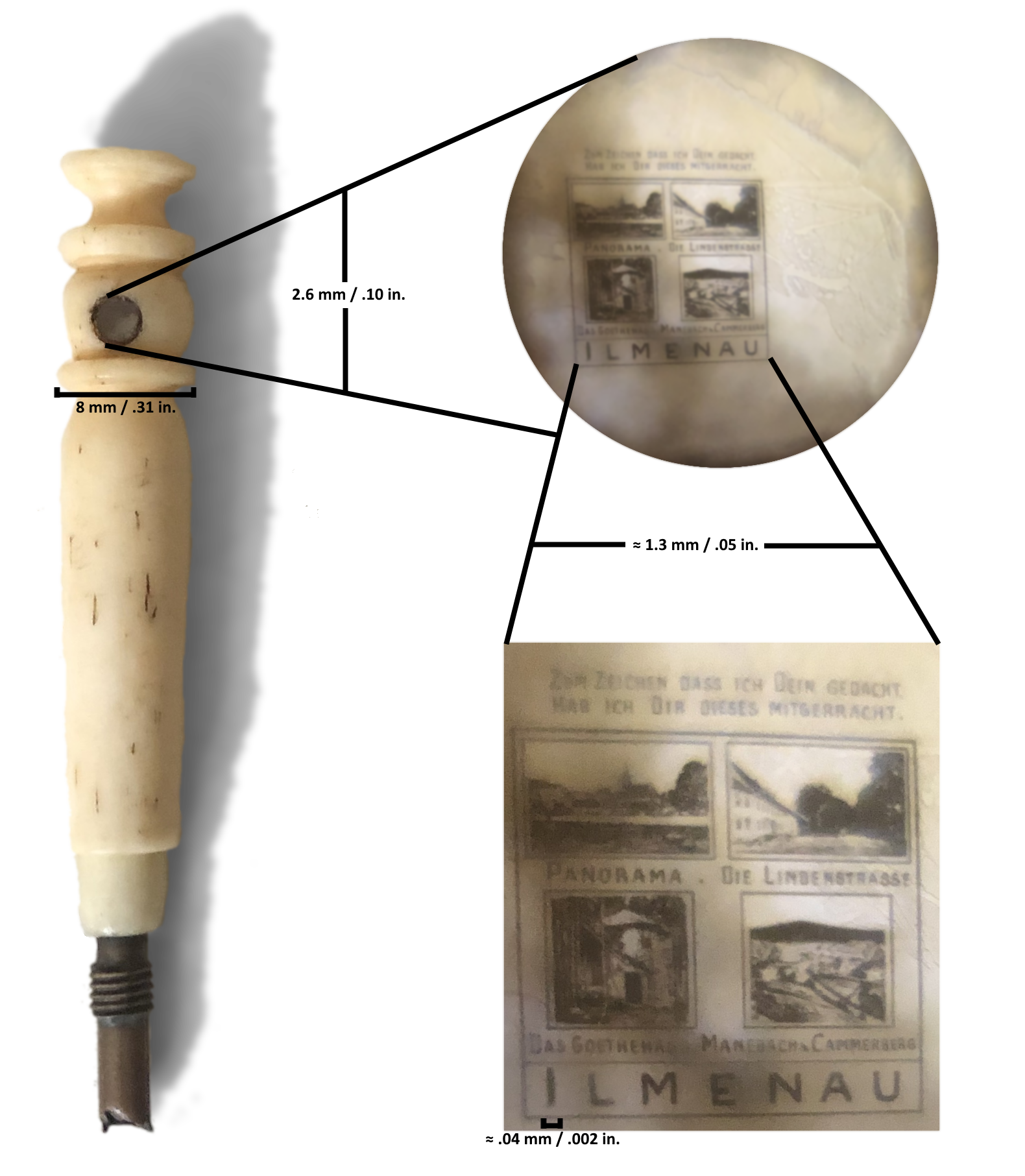 A diagram of a stanhope (optical bijou) featuring scenes of the German town of Ilmenau. The stanhope was acquired during the First World War in Germany, but was likely manufactured sometime before then. Since it is from that long ago, the photographs inside it are out of copyright by their age.